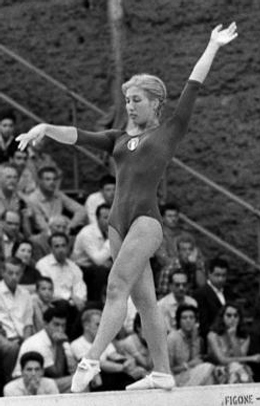 Miranda Cicognani at the Rome Olympics